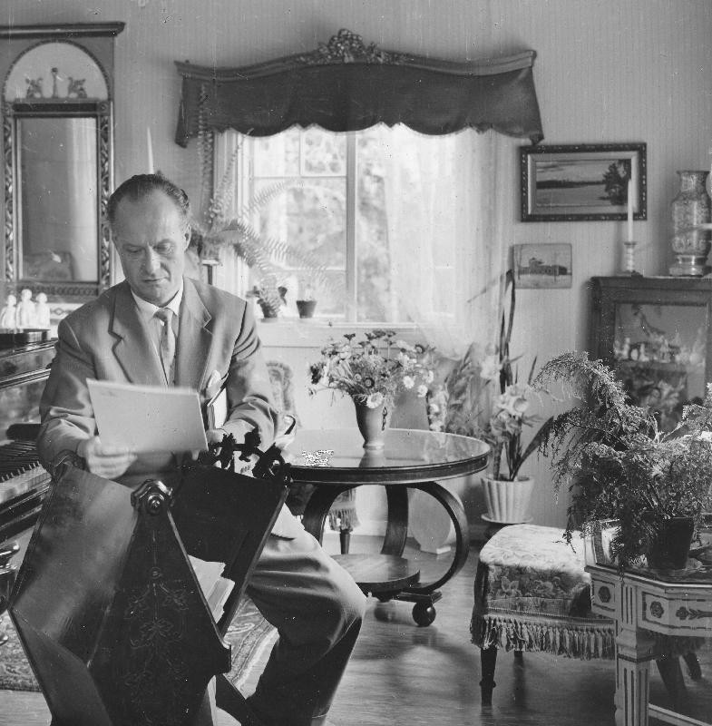 Photograph of the Finnish opera vocalist Lauri Lahtinen (1913–1990) at his home in Mäkkylä, Espoo.